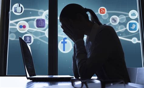 A woman cyberbullies